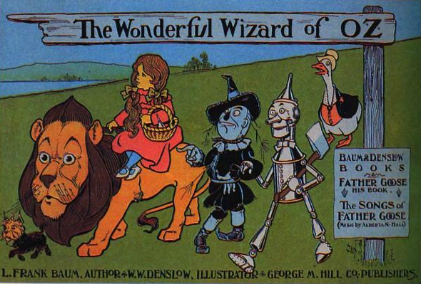 "Poster advertising The Wonderful Wizard of Oz, issued by the George M. Hill Company, 1900"